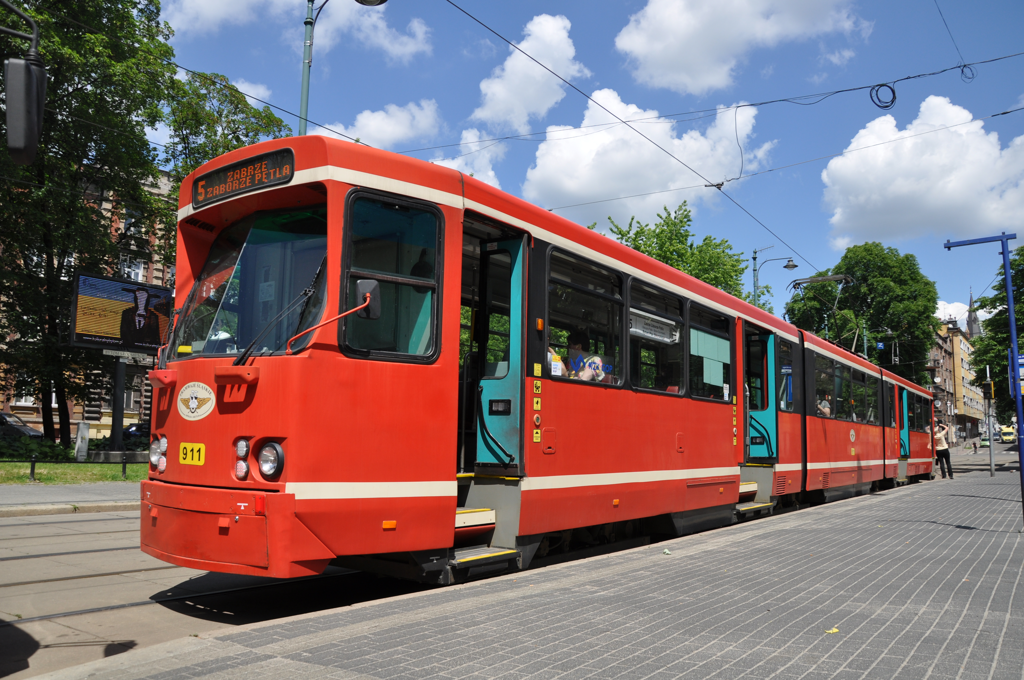 Trams of Tramwaje Slaskie